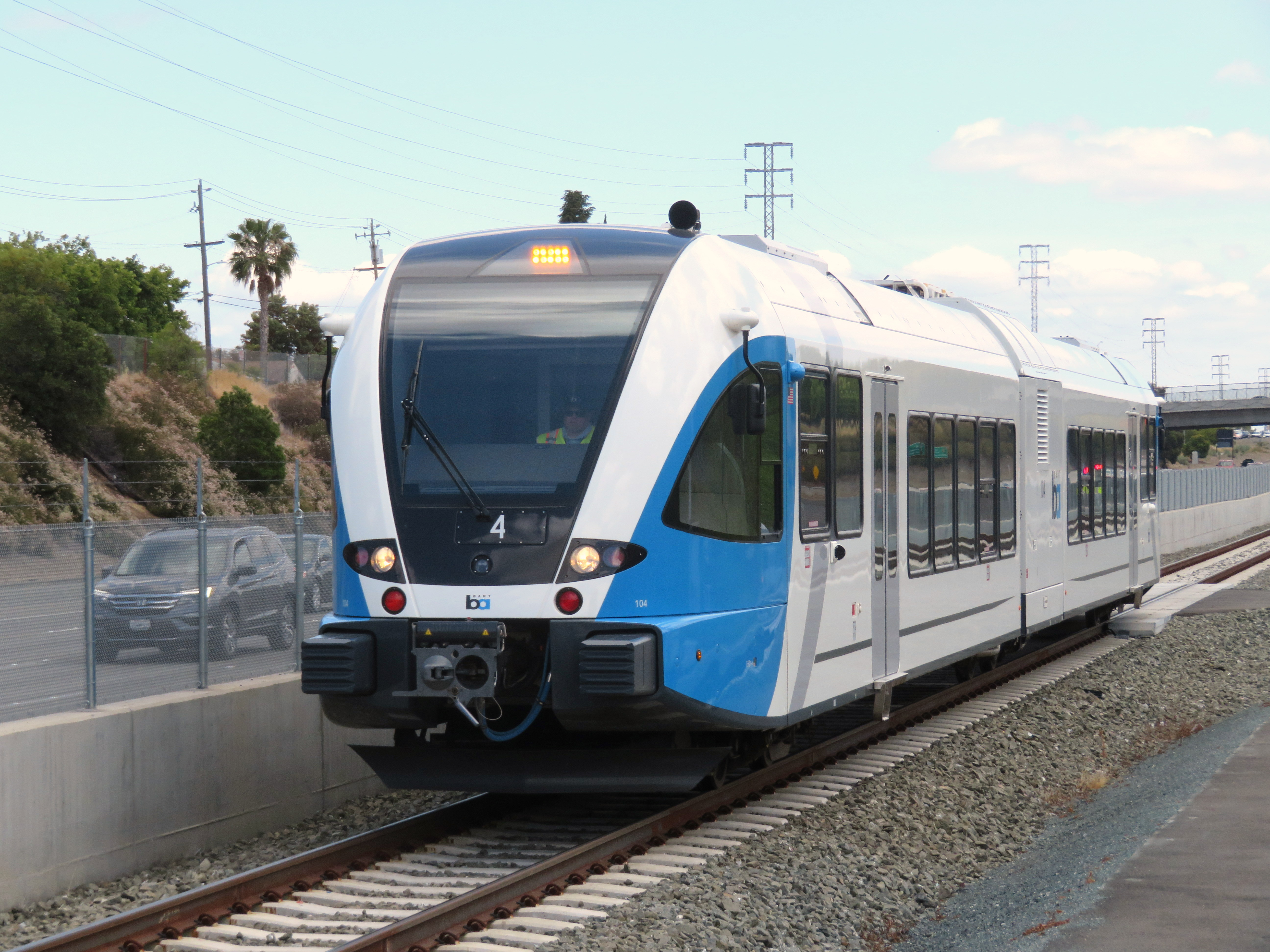 Westbound train approaching Pittsburg Center station on the first day of eBART service in May 2018